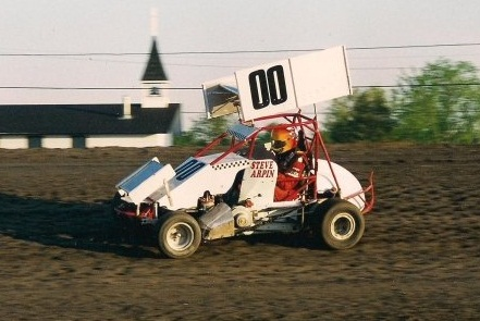 Steve Arpin races his Mini-Sprint in 1997 at Emo Speedway